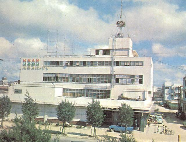 Ryukyu Broadcasting Corporation Building in 1960s